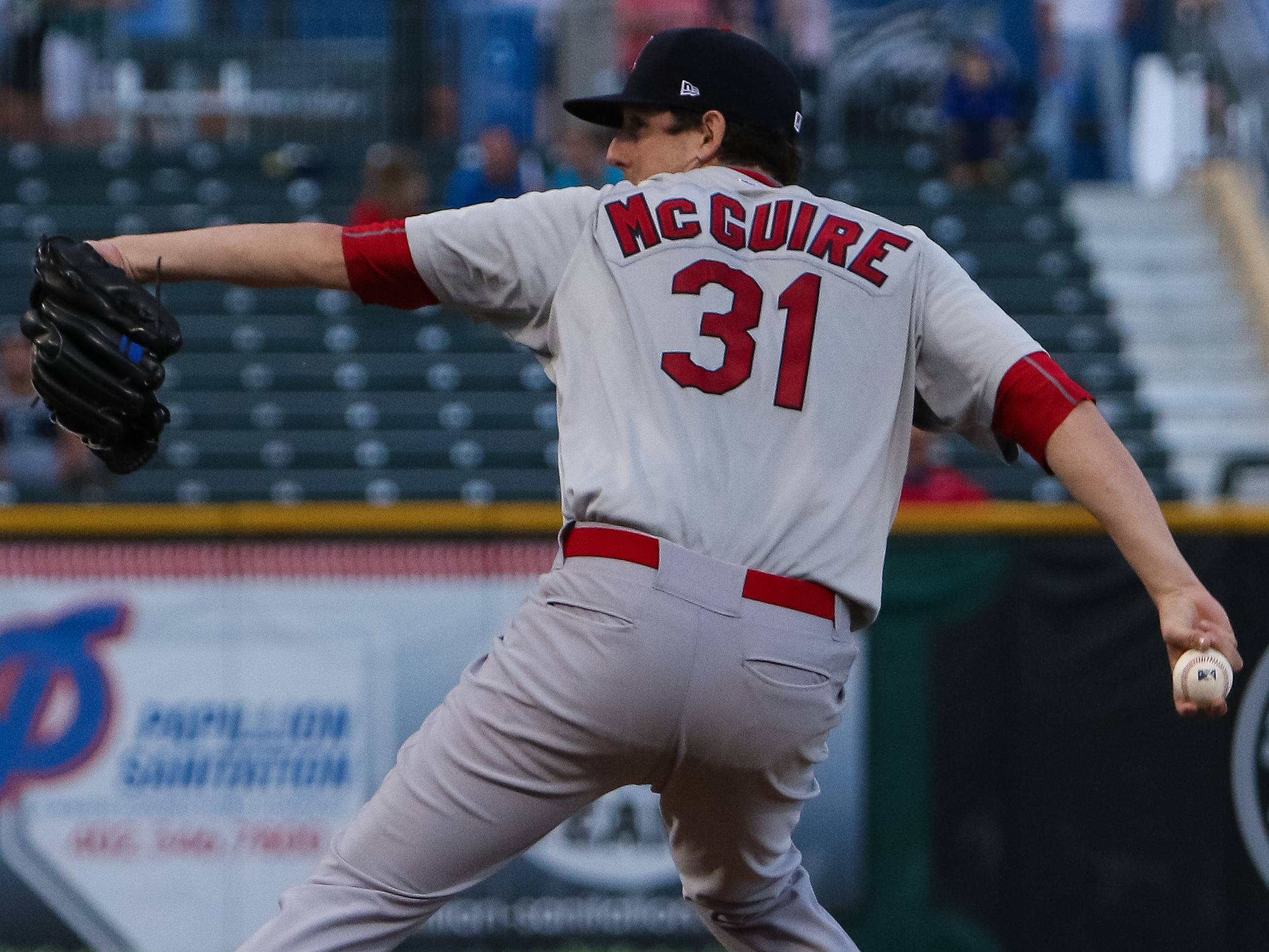 Minda Haas Kuhlmann | 2016 USAGE INSTRUCTIONS: You are welcome to share or publish to your own site or social media account, but you MUST credit me, Minda Haas Kuhlmann, or by my Twitter handle (@minda33) or Instagram (minda.haas).